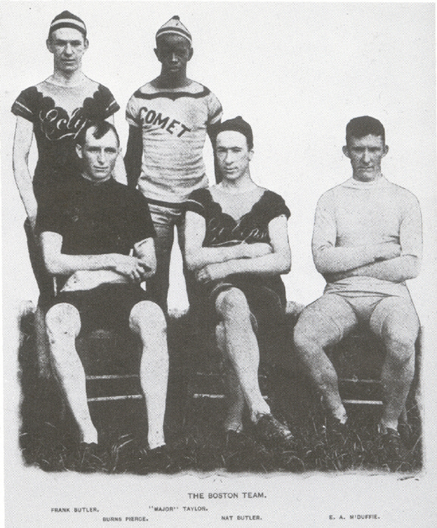 The integrated Boston pursuit team of 1897, left to right: Frank Butler, Burns Pierce, Major Taylor, Nat Butler, Eddie McDuffie.